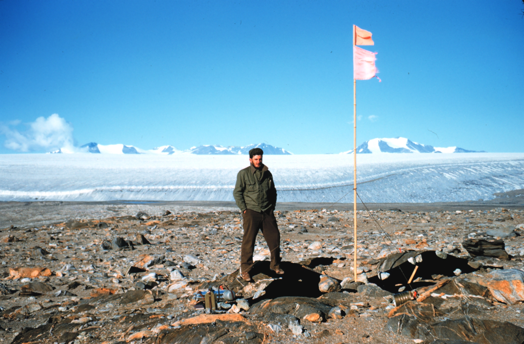 Photographer: Self-portrait, William McTigue Date: 1957 Location: Marble Point, Antarctica Source: United States National Oceanic and Atmospheric Administration Bill McTigue stands at a Marble Point survey control station used during construction of air strip. The air strip is no longer in use. However, a contemporary fuel station at the site is used for re-fueling helicopters enroute to and returning from research operations into the nearby continental interior.